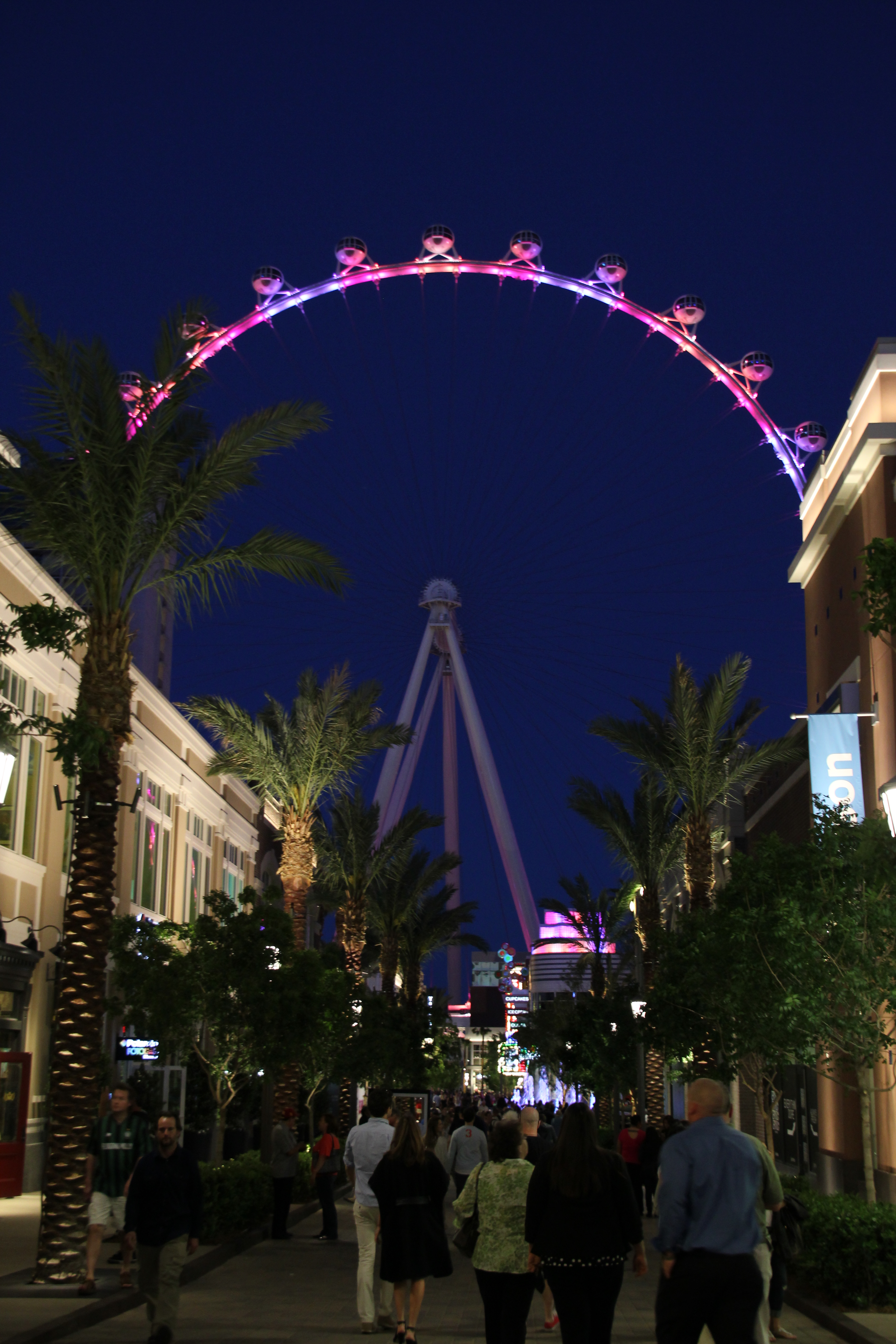 View of The High Roller from The Linq